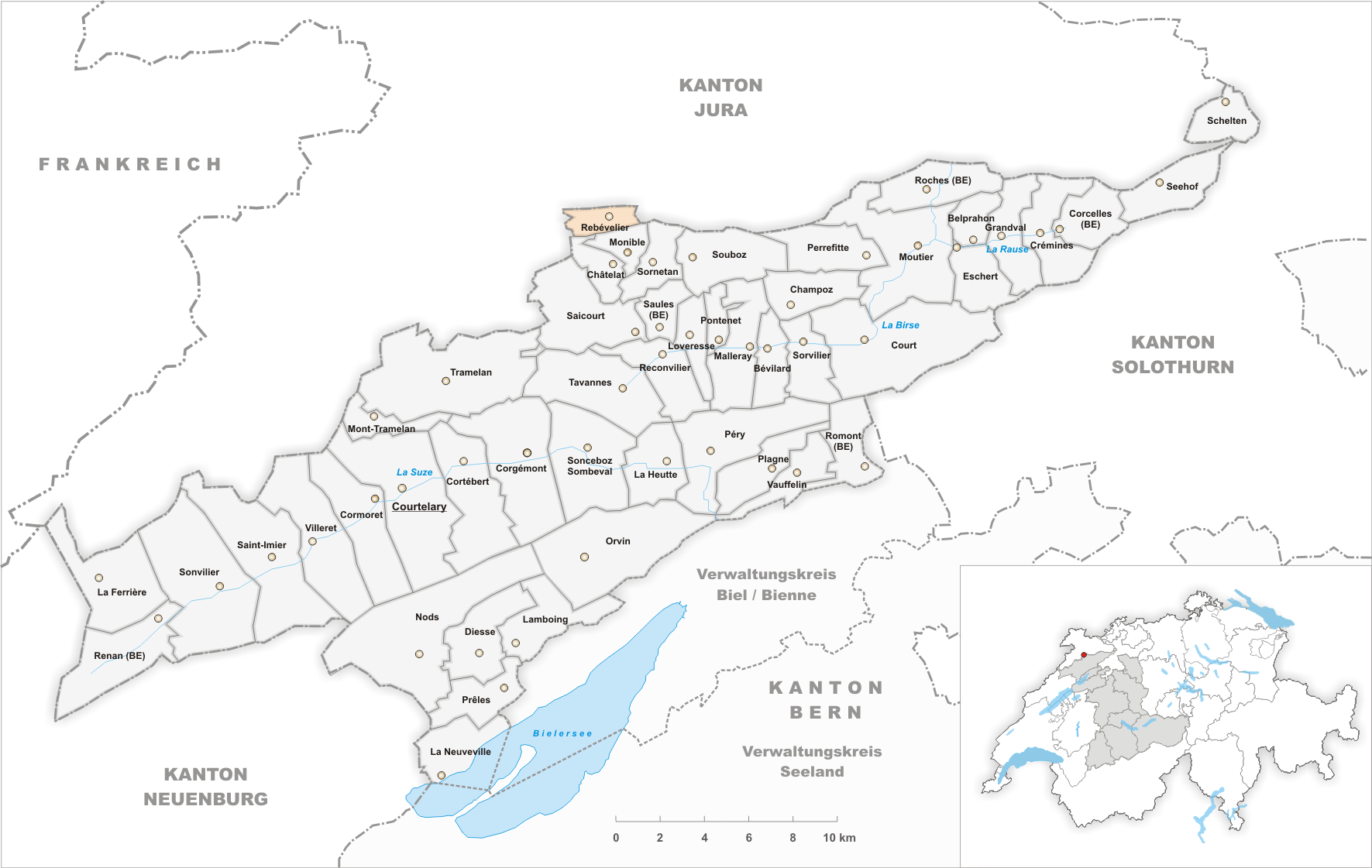 Municipality Rebévelier